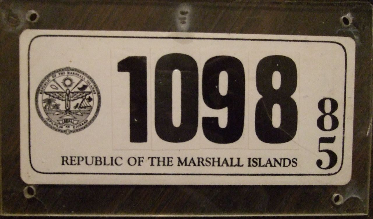 License plate used in the Marshall Islands in 1985